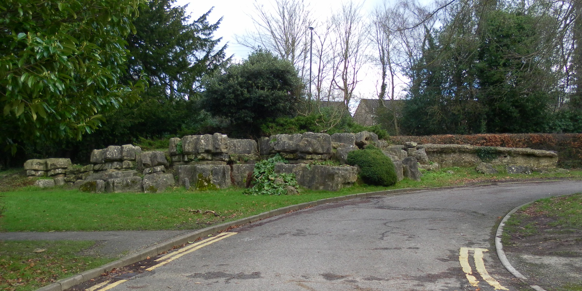 Pulhamite Rockery at Milton Mount Gardens, Pound Hill, Crawley, West Sussex, England. A feature within the preserved grounds of the demolished Worth Park House.